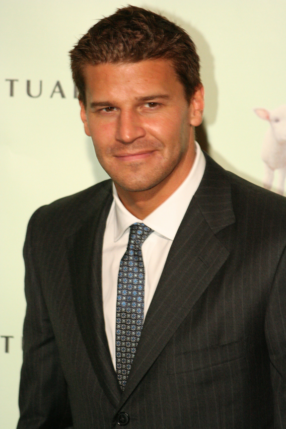 Actor David Boreanaz